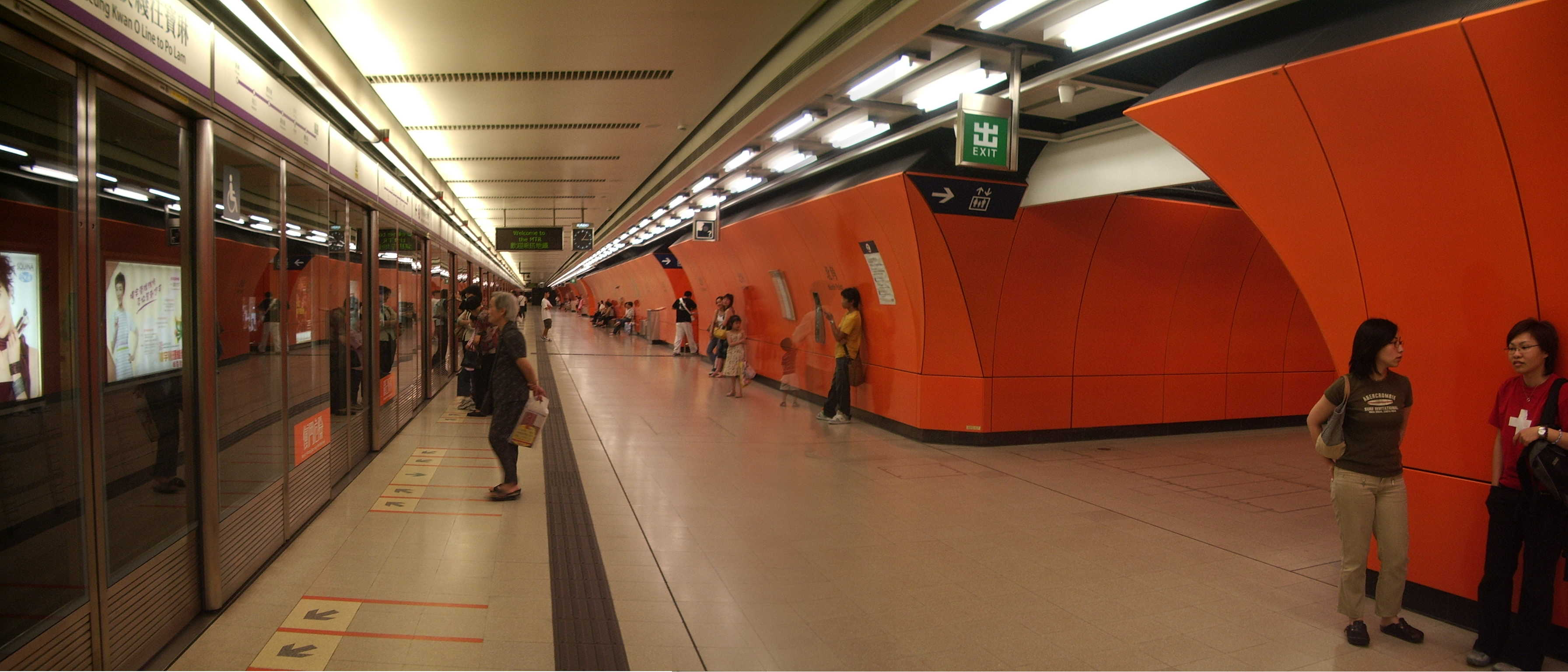 MTR North Point station Platform 3